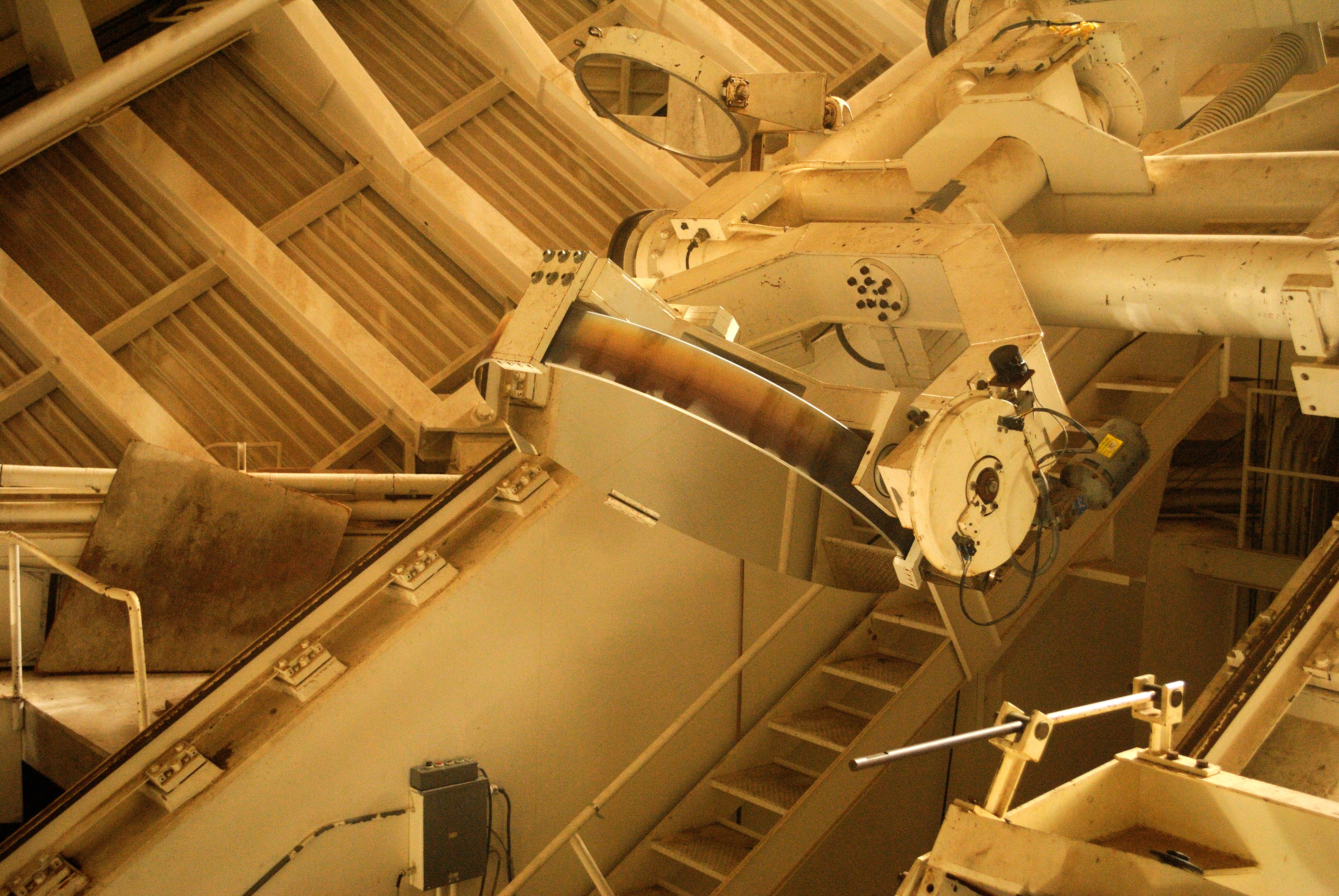 Looking at the 1.5m Mirror.